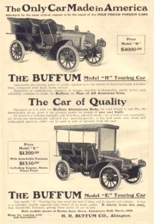 1905 Buffum ad shows 12 HP Model E with detachable tonneau and top, and 28 HP Model H Touring. Not pictured is 12 HP Model F 3-passenger Roadster.